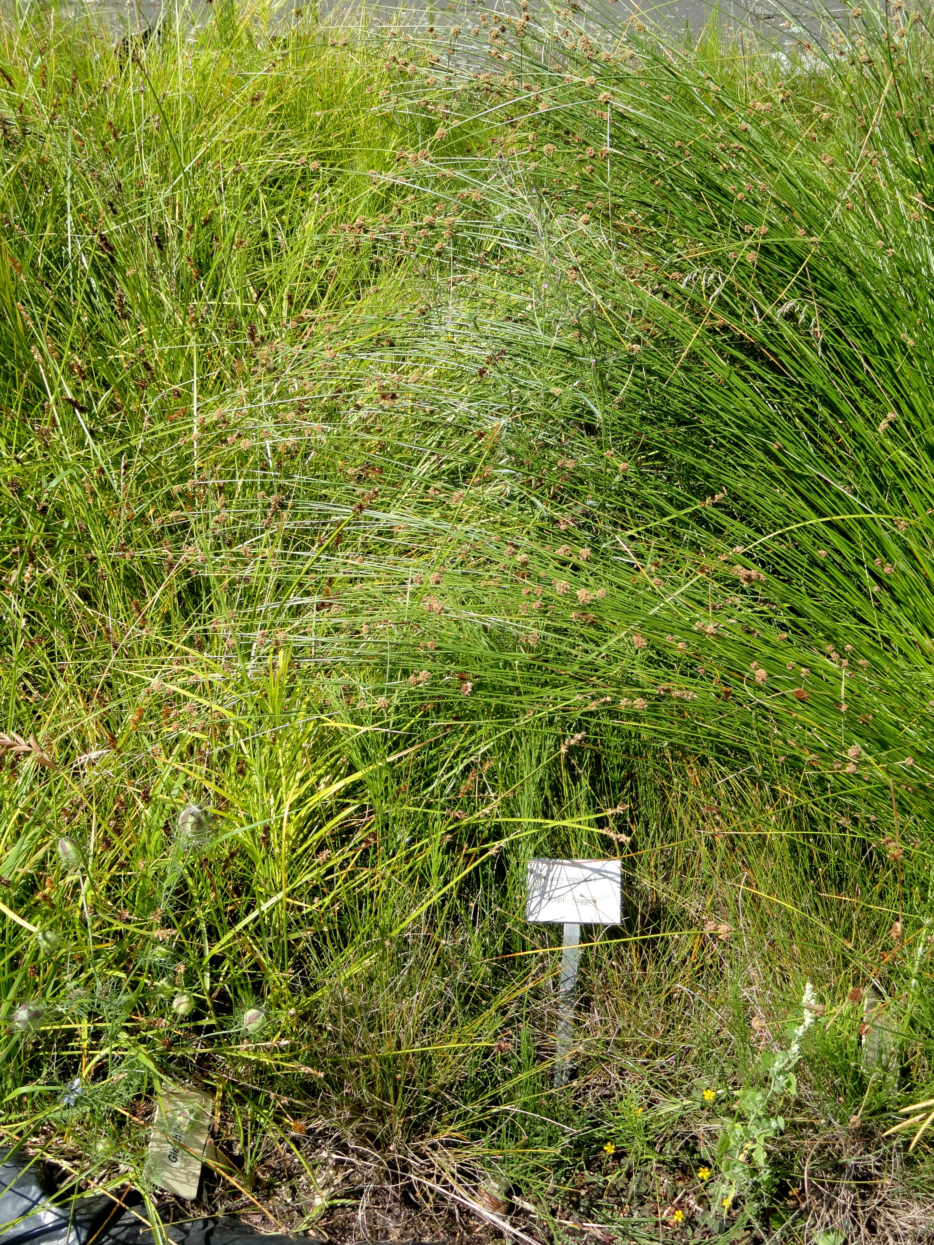 Botanical specimen in the Botanischer Garten, Frankfurt am Main, located at Siesmayerstraße 72, Frankfurt am Main, Germany.